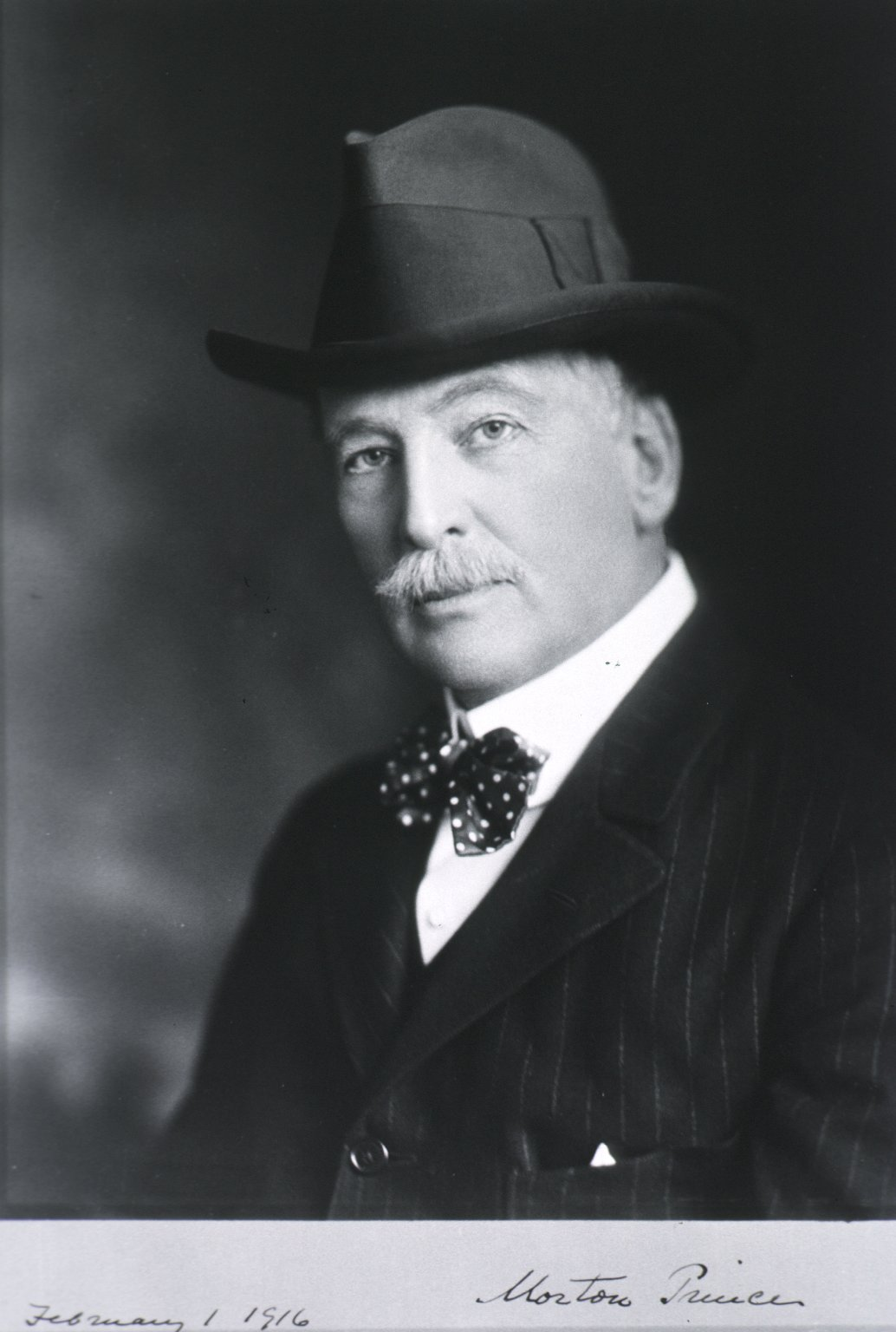 Morton Prince